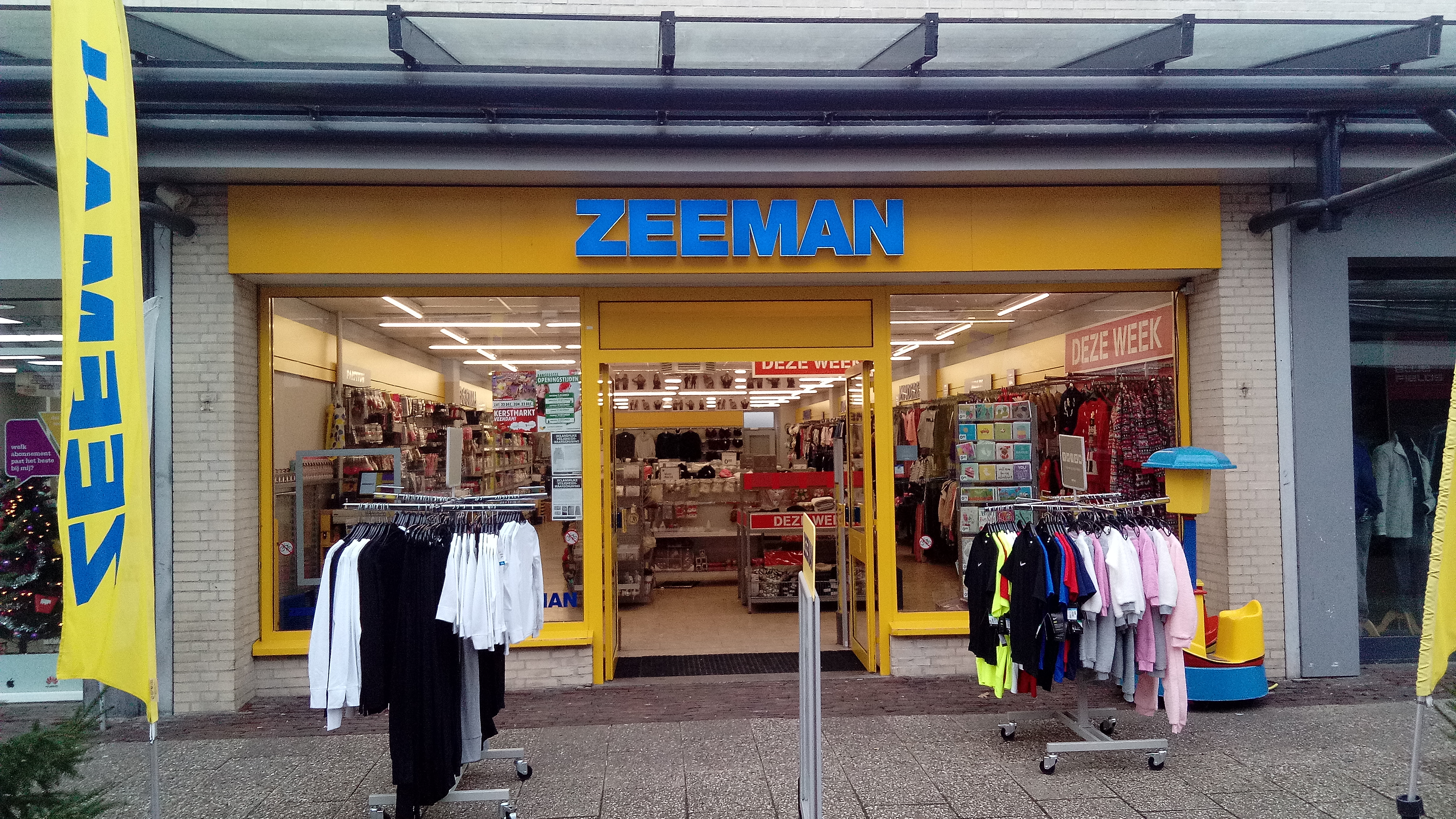 A small local Zeeman-branded clothing store in the Groninger city of Veendam.